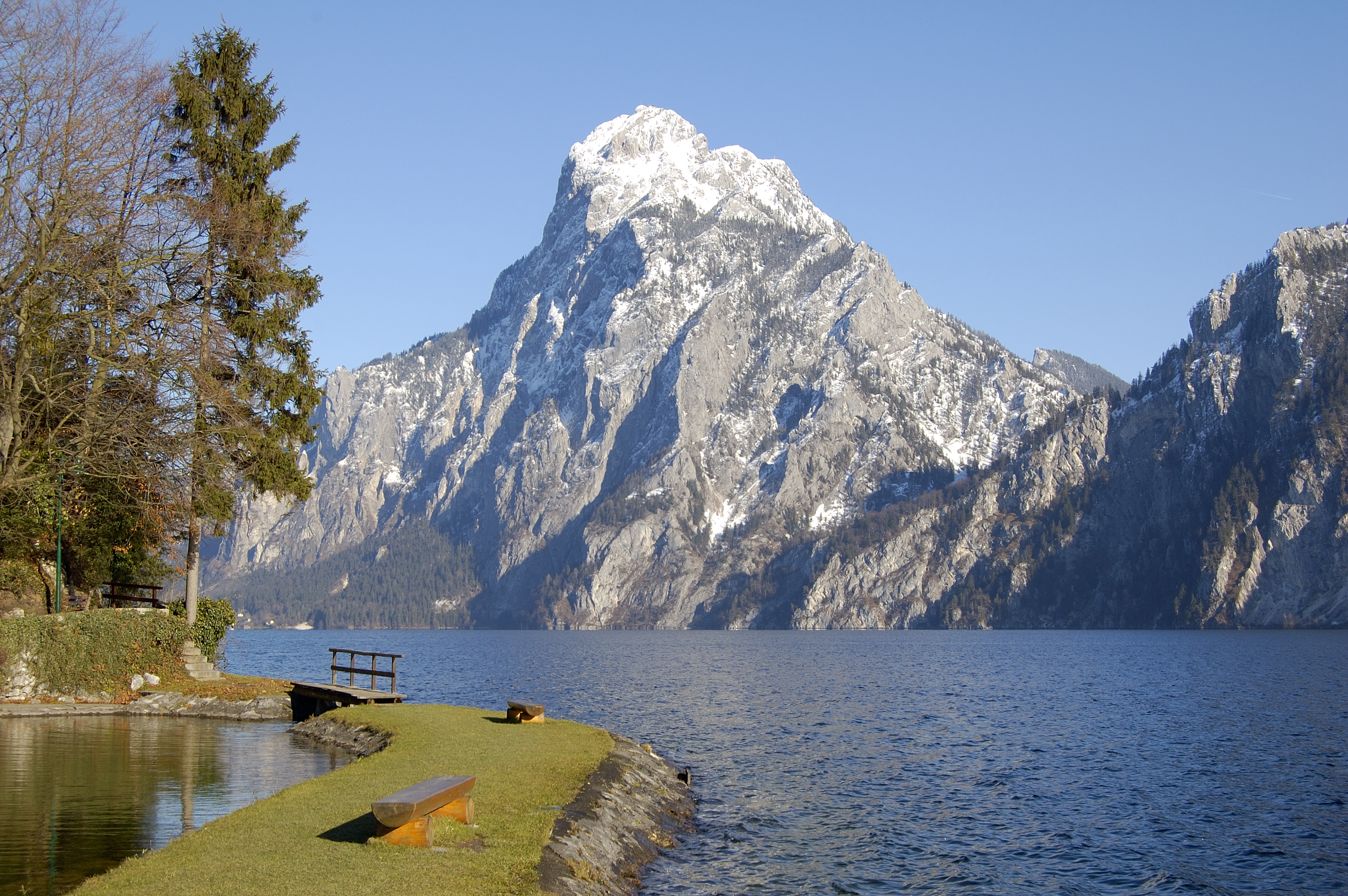 Traunstein Mountain seen from Traunkirchen.